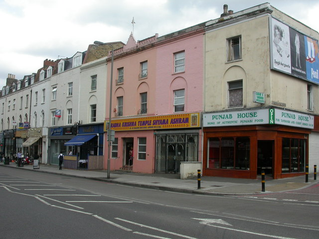 Balham, Radha Krishna Temple Hindu temple on Balham High Road.